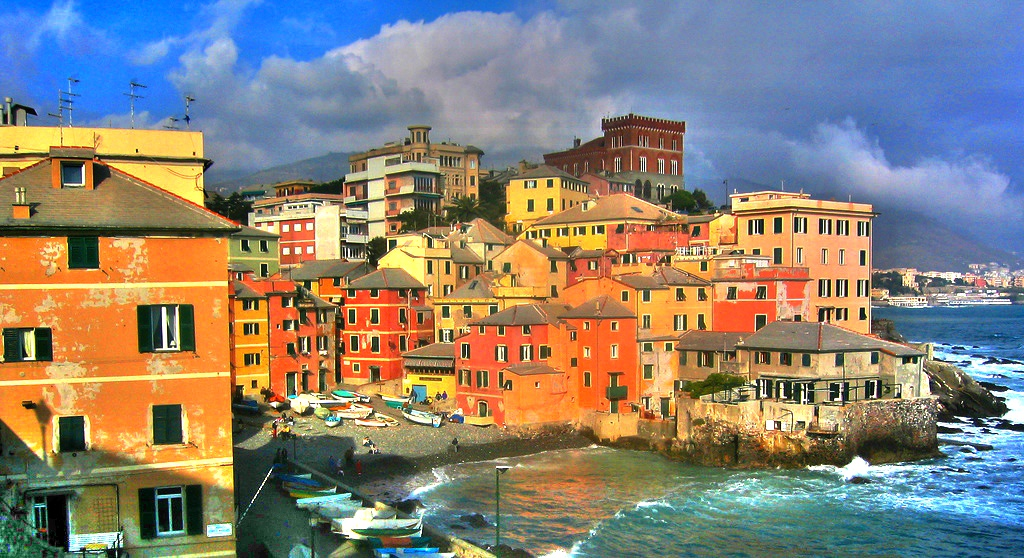 Boccadasse, a neighbourhood of the Italian city of Genoa.